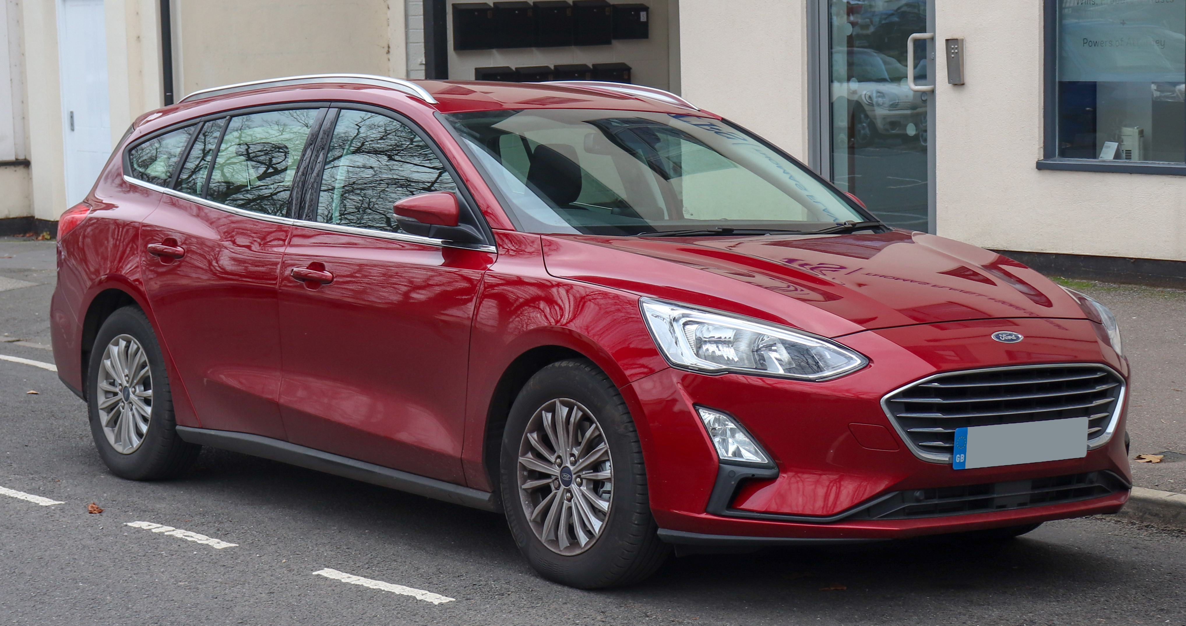 2018 Ford Focus Titanium Estate 1.5 Front Taken in Leamington Spa